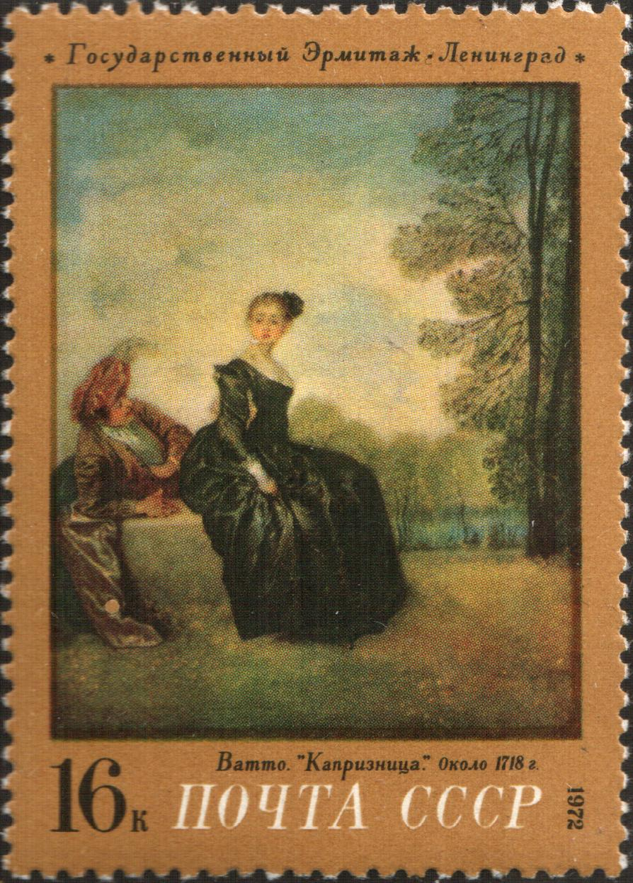 USSR stamp